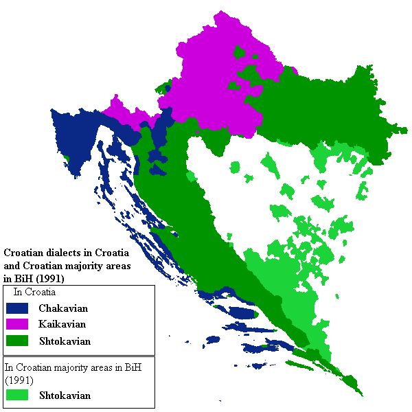 Added areas in BiH which had croatian majority in 1991 to cro dialect map. Croatian stocavian in BiH is marked with lighter colors